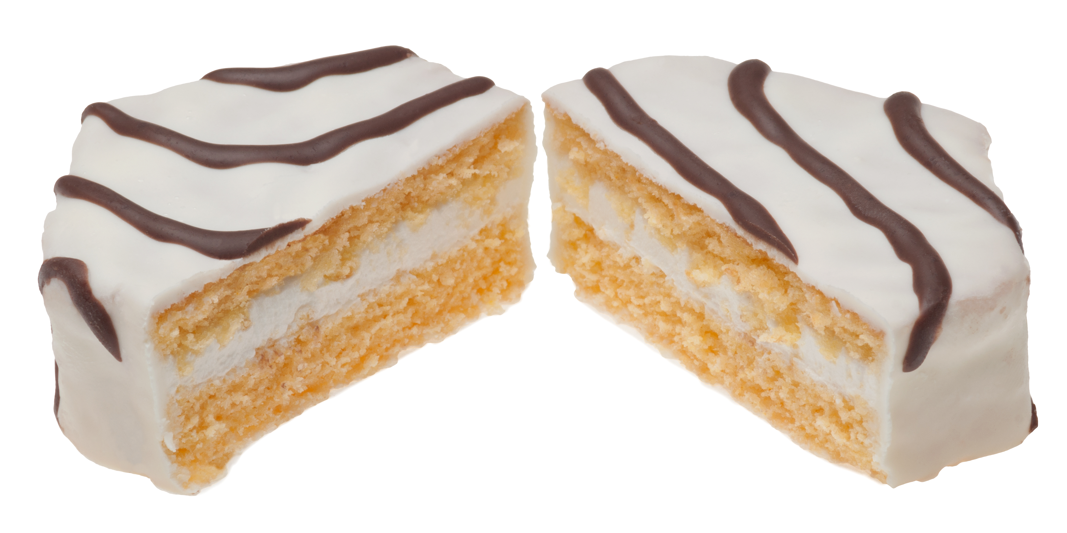 Little Debbie Zebra Cakes, made by Chris Kelly.